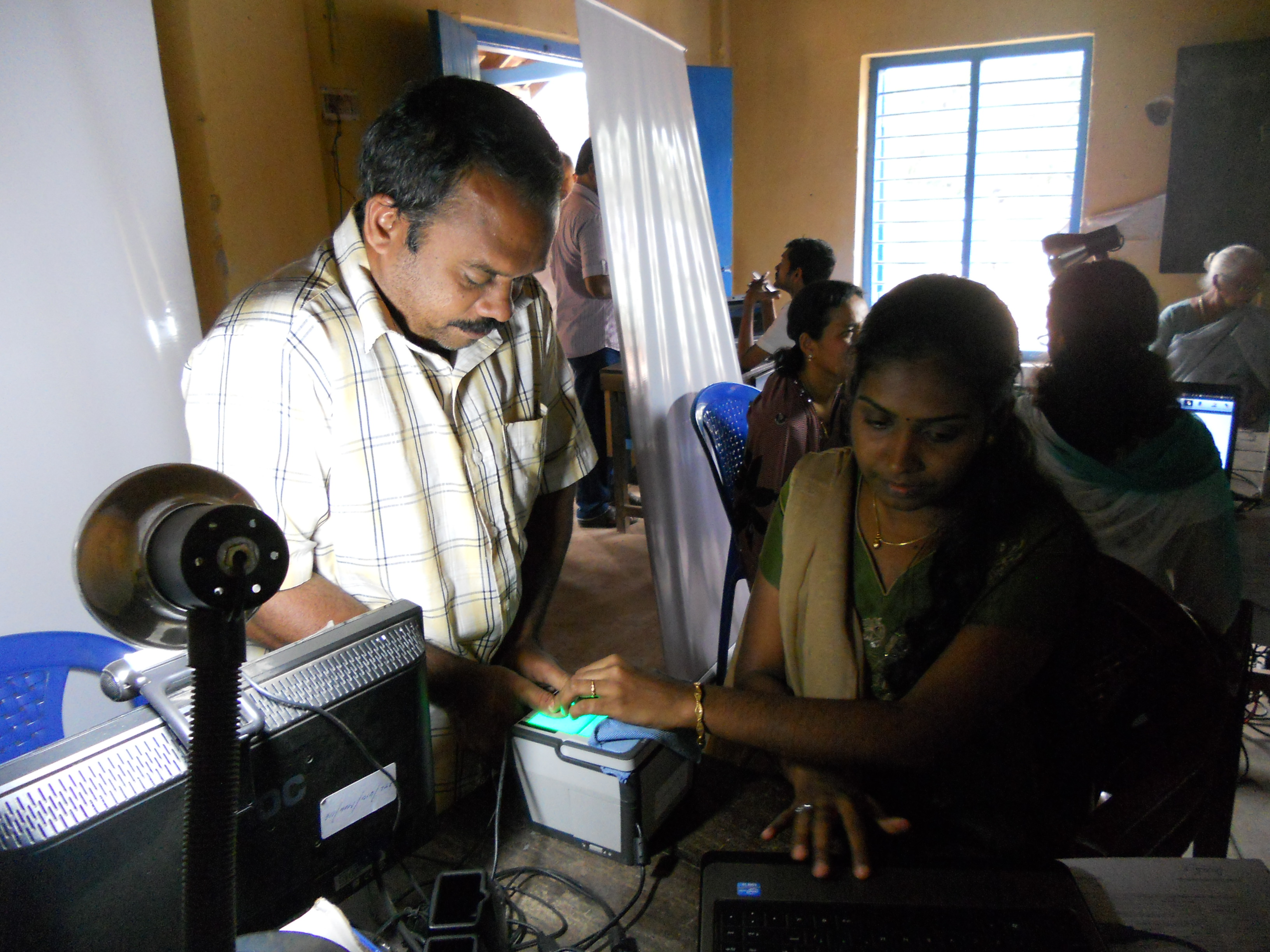 Taking fingerprints for Aadhaar,a 12-digit unique number which the Unique Identification Authority of India (UIDAI) will issue for all residents in India.The number will be stored in a centralized database and linked to the basic demographics and biometric information – photograph, ten fingerprints and iris of each individual.